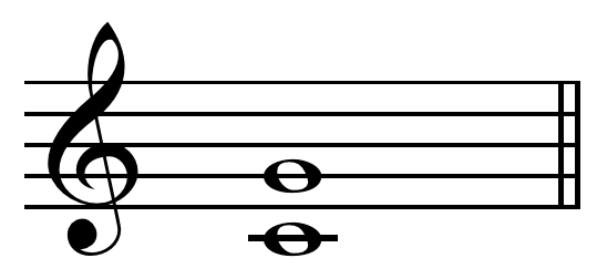 Perfect fifth on C = G. Just: 3:2 = 701.96 cents. Equal-tempered: 27/12:1 = 700 cents.